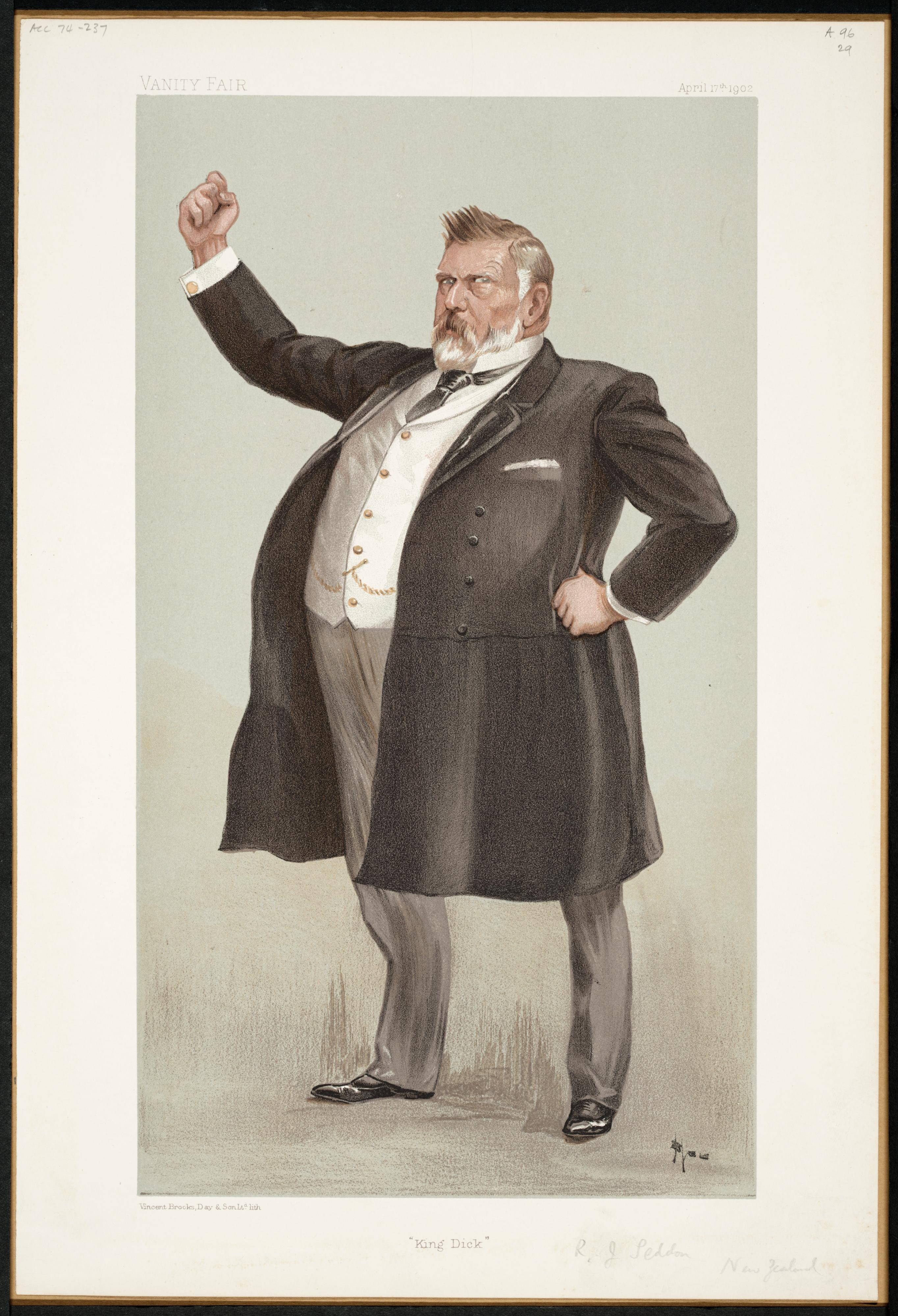 Men of the Day No.0838: Caricature of The Rt Hon RJ Seddon. Caption reads: "King Dick"